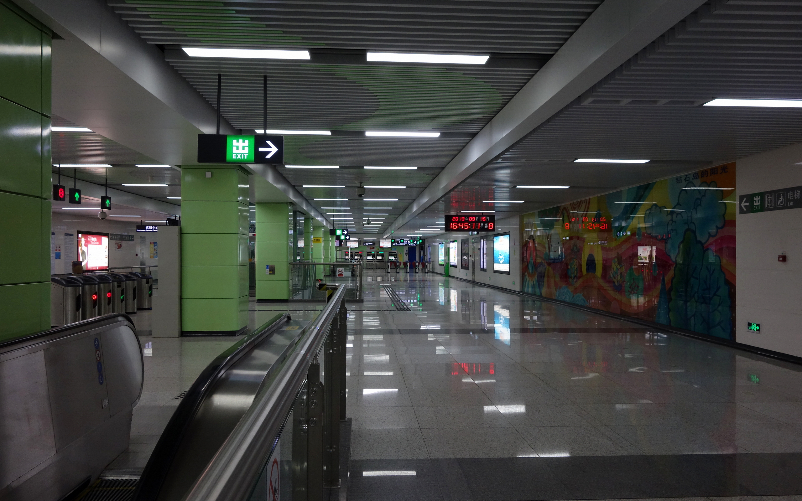 Qiaocheng North station Hall